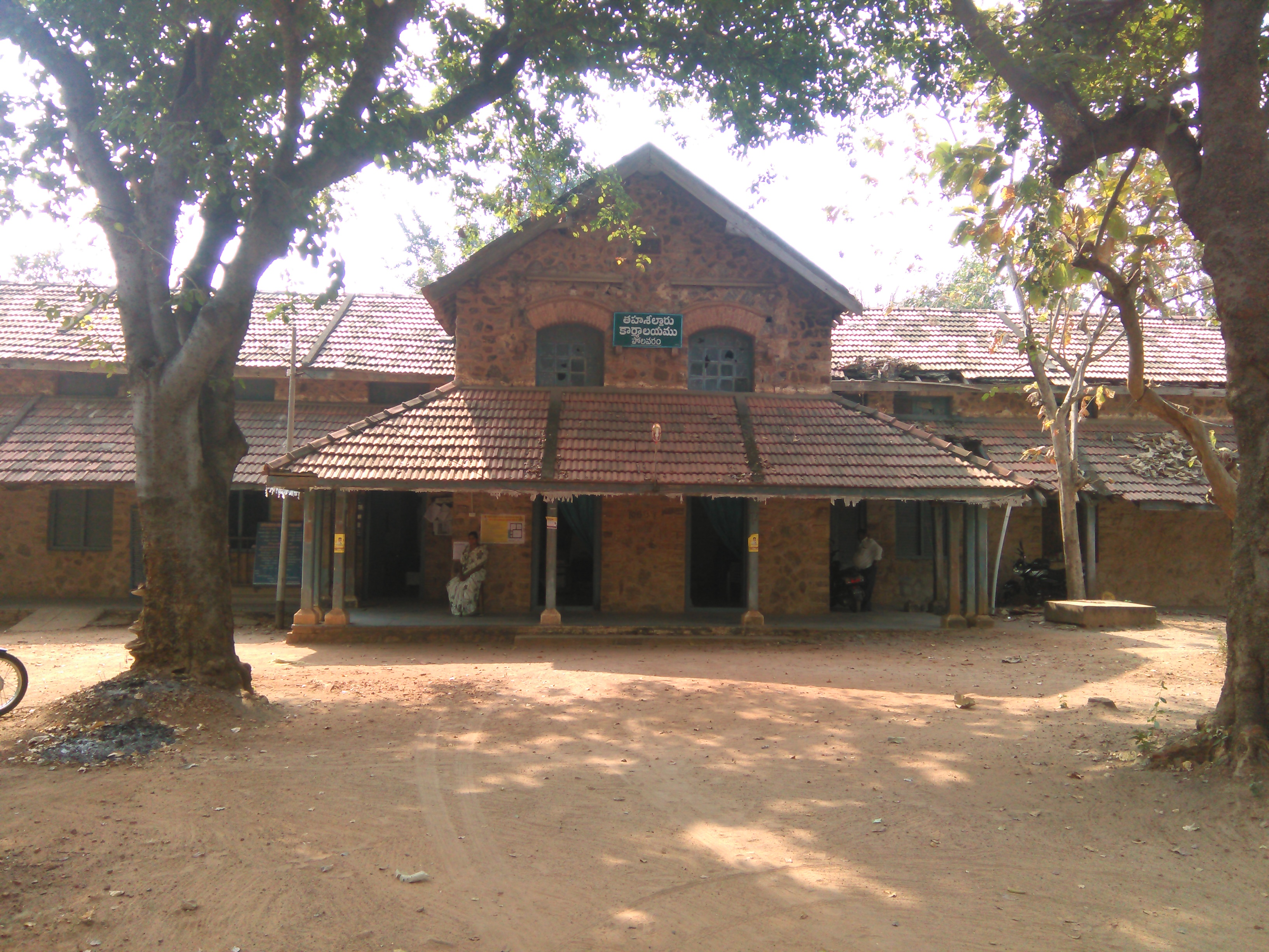 A.P Village Polavaram Mandal Office